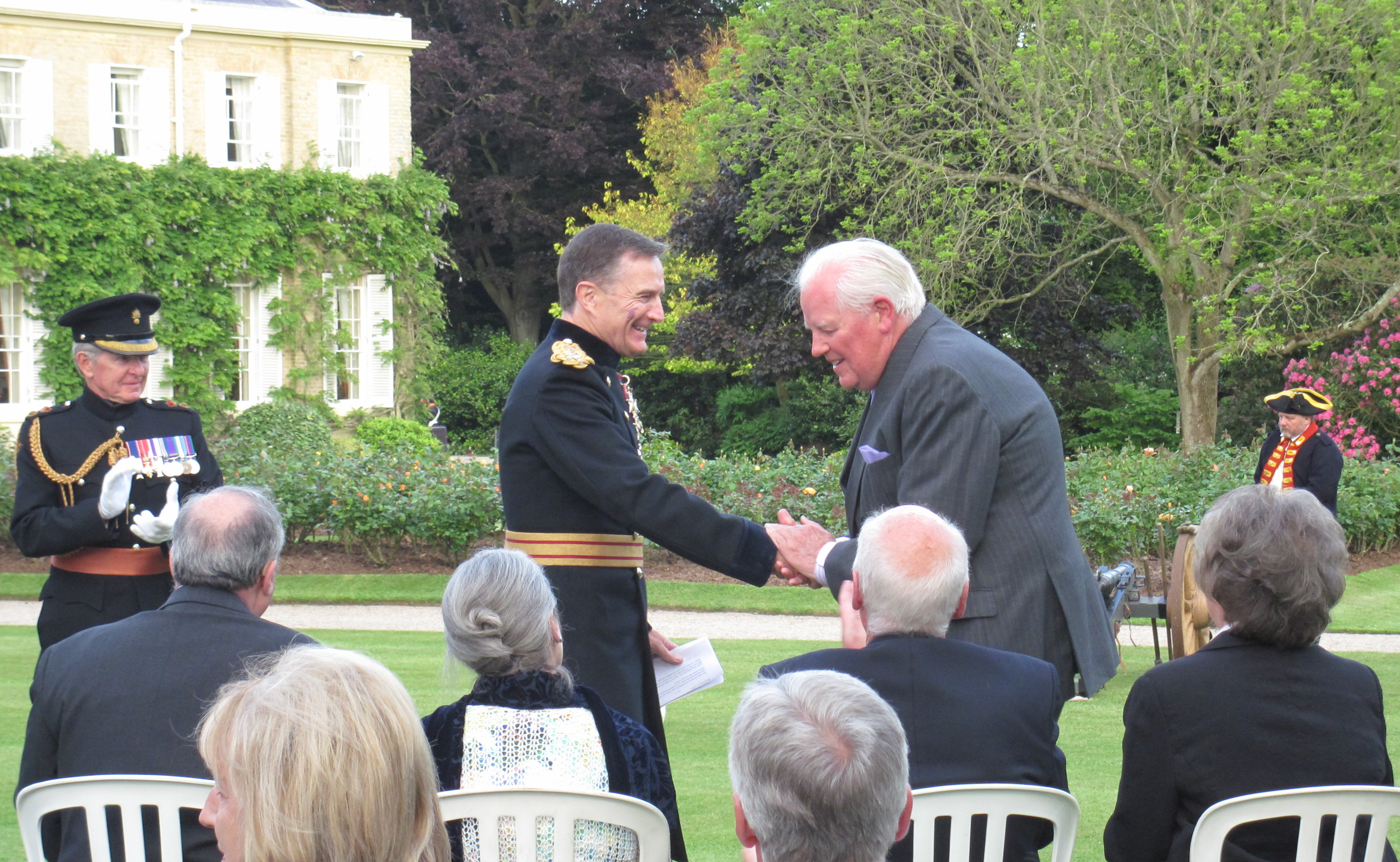 Queen's Official Birthday reception at Government House, Jersey, 14 June 2013